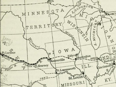 Ox-team pioneer Ezra Meeker (1830-1928) went over the Oregon Trail in 1852, this is the eastern half of his travels.